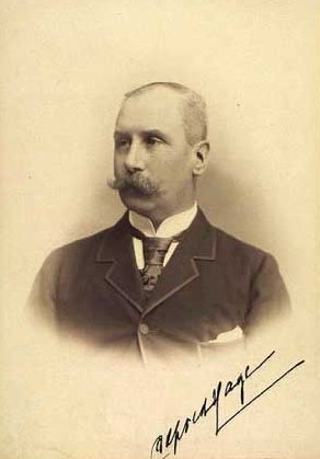 Danish landowner, nature preservationist, and politician Alfred Hage (1843-1922